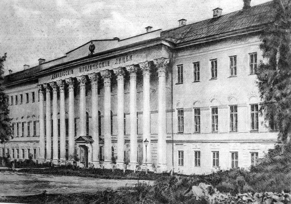 Demidov Juridical Lyceum